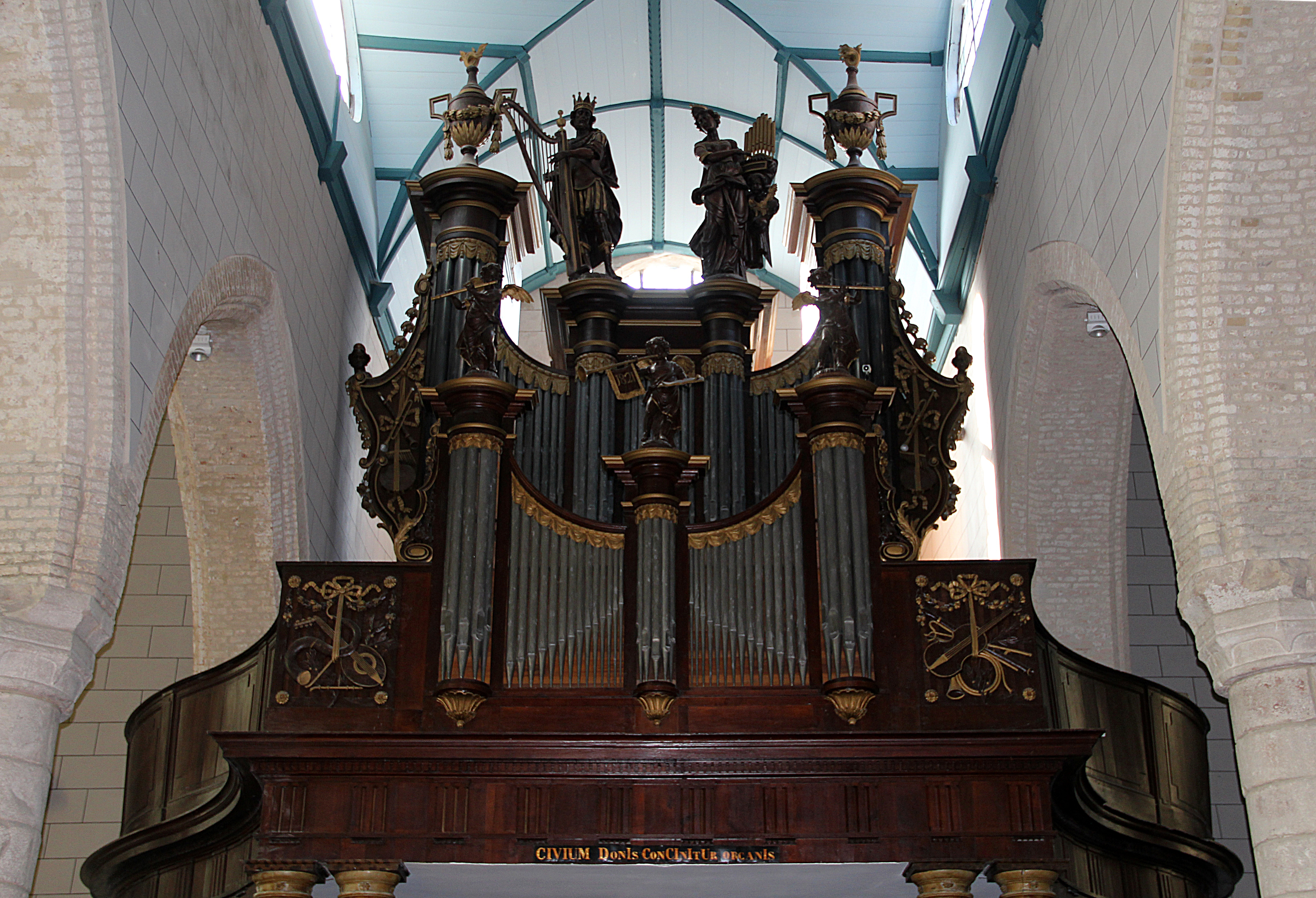 Organ buffet at the Notre-Dame-de-la-Crypte collegiate church in Cassel (Nord department, France).